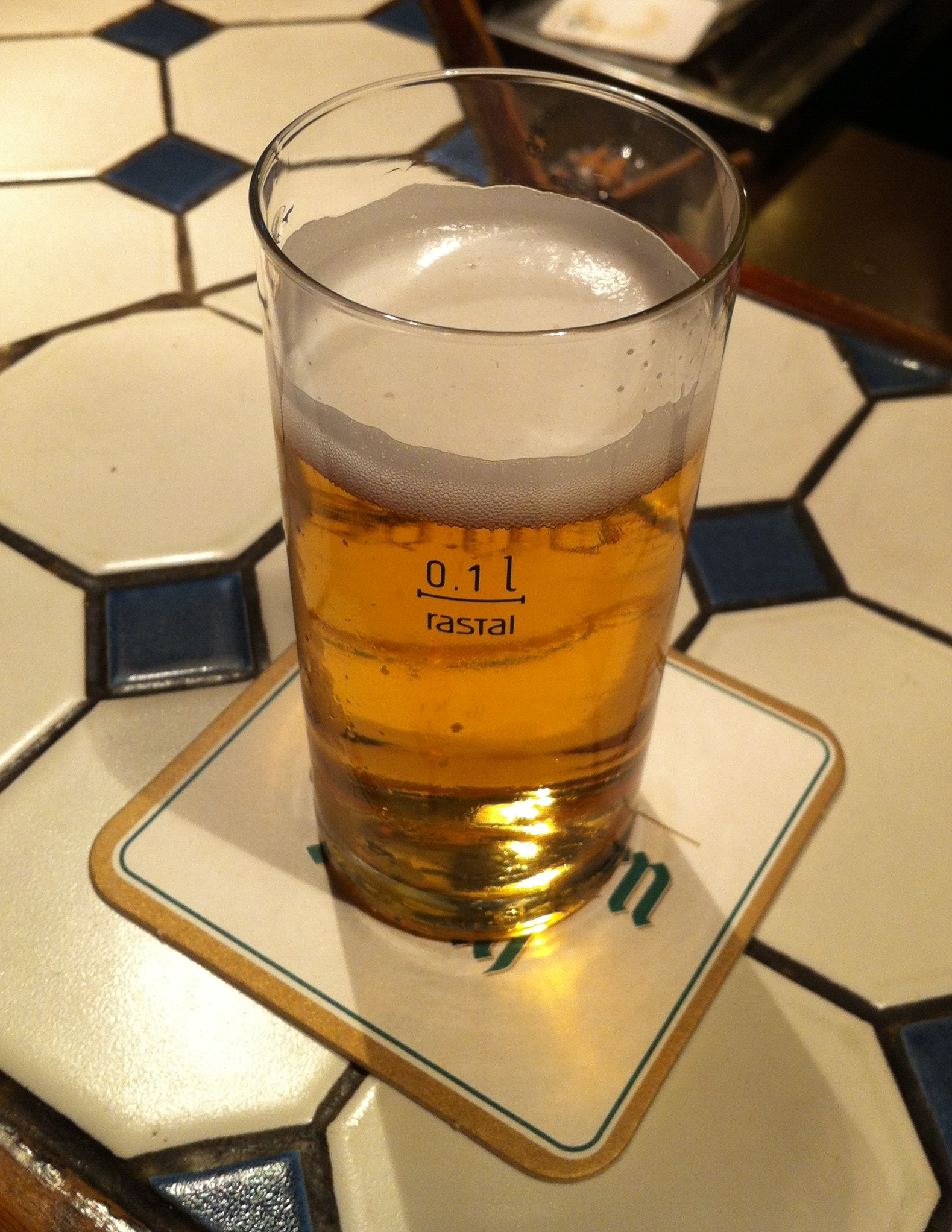 Germany, Bonn: "Stößchen"; means a 0.1-liter glass Kölsch beer (Kurfürsten-Kölsch) on a pub-bar.